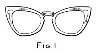 Figure 1, from US design patent #169,995 (Ray-Ban Aloha sunglasses)